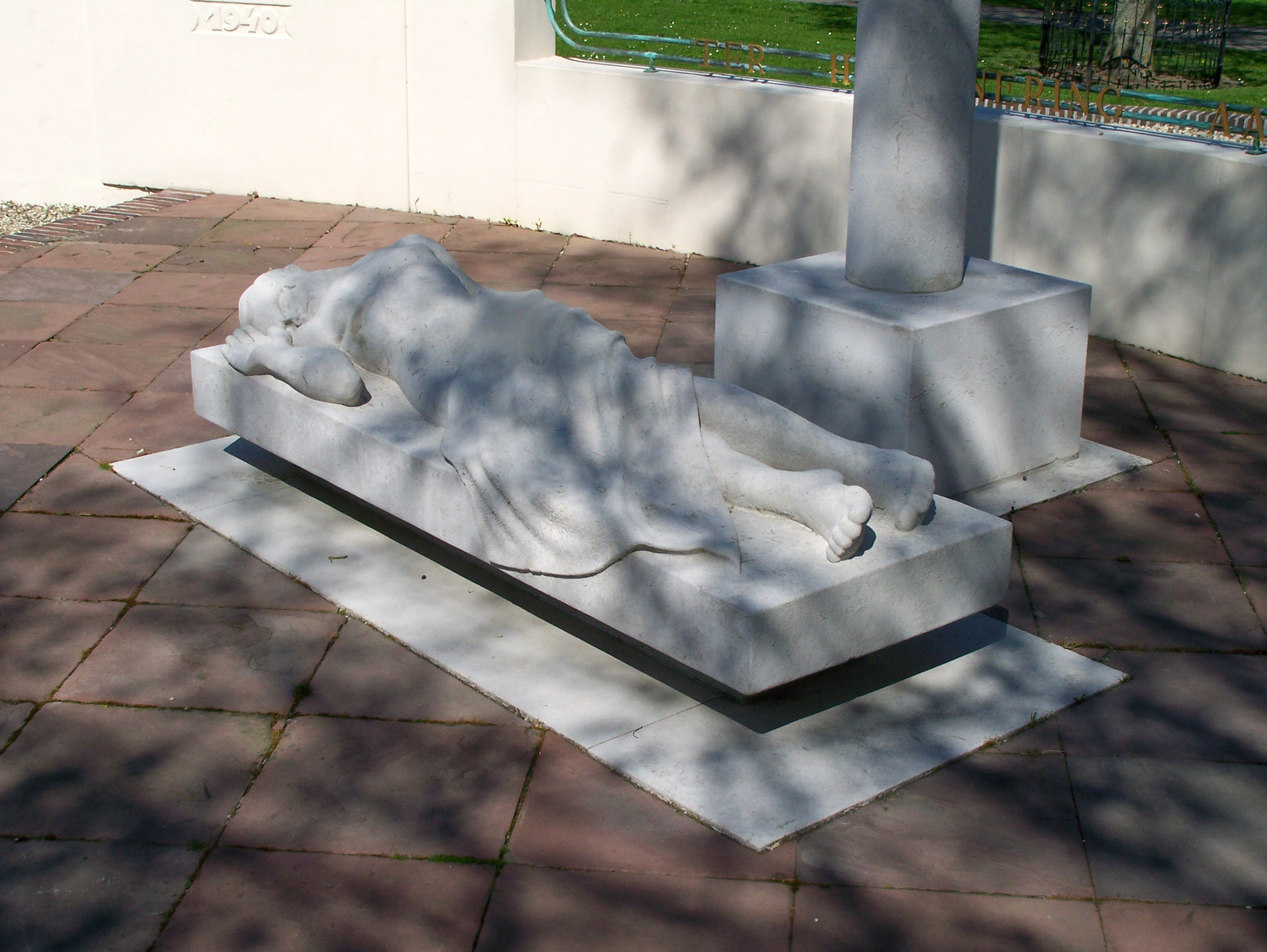 Detail of World War II Memorial in Kampen at the De La Sablonièrekade. Made by Hildo Krop in 1949.